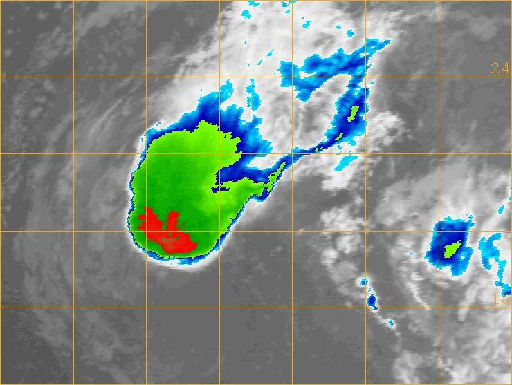 Remnants of 2009's Hurricane Fred showing a blowup of convection dislocated from the center of the storm. This prompted the National Hurricane Center (NHC) to speculate Fred might regenerate. (Image Credit - NRL)